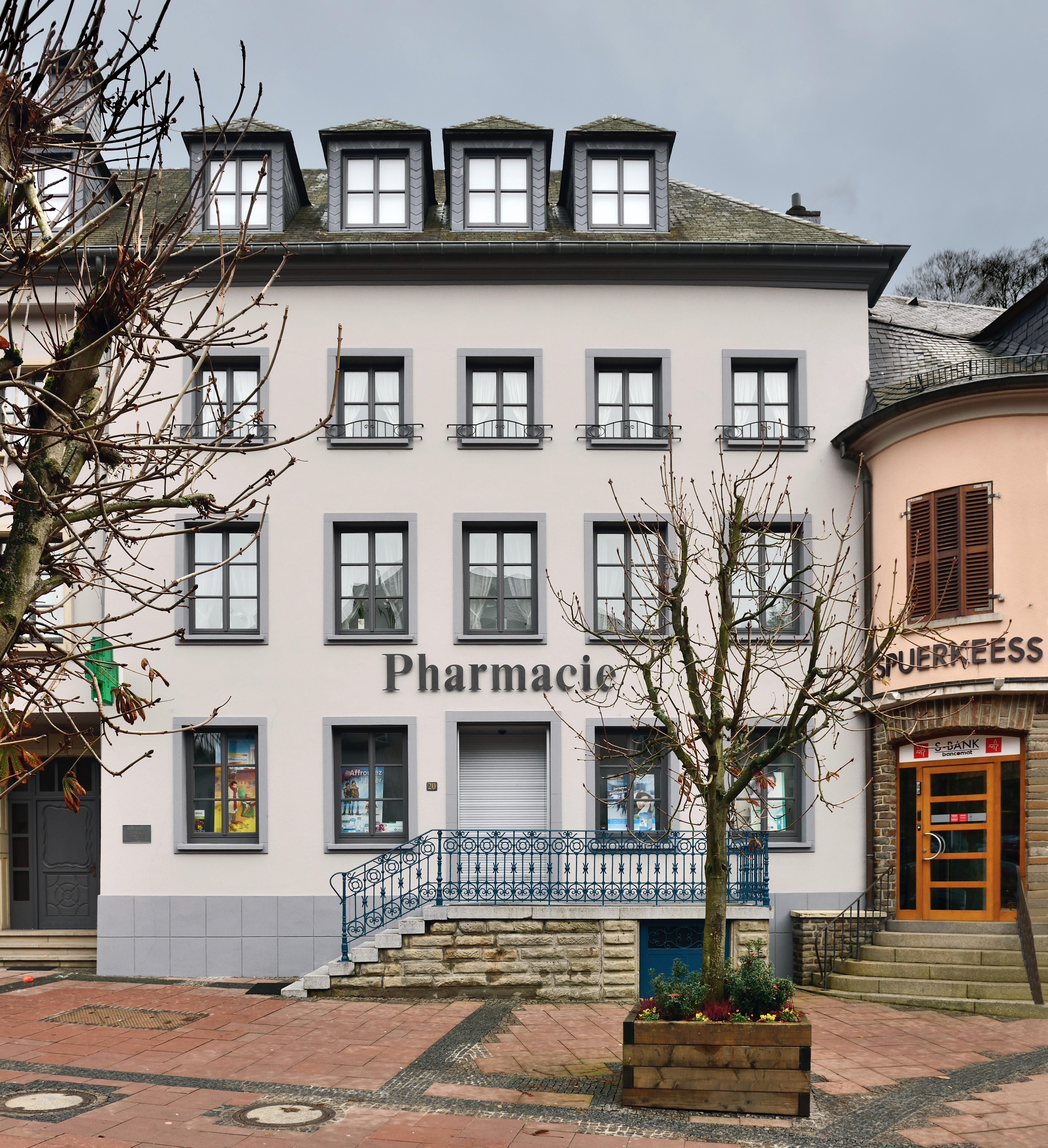 Luxembourg, Clervaux: Pharmacy, 20, Grand-Rue. The building formerly hosted a hotel, where Victor Hugo stayed from September 27 to 29 1863 during his political exile. A plaque (on the left) commemorates that event.